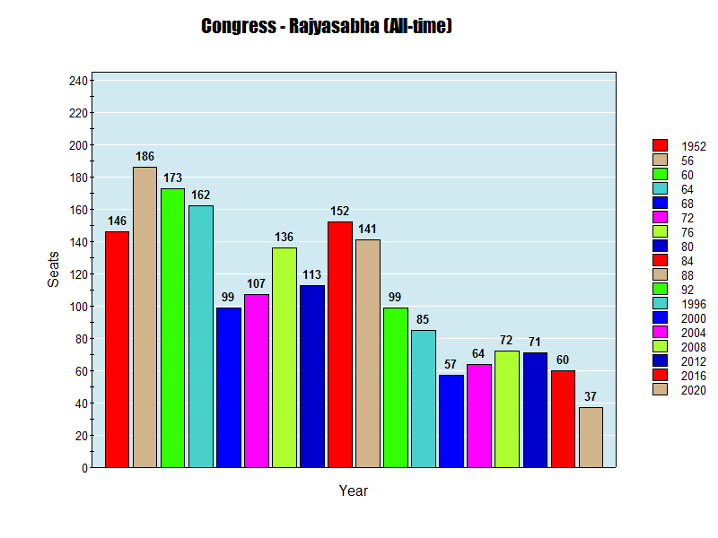 data upload karna acha kaam hai